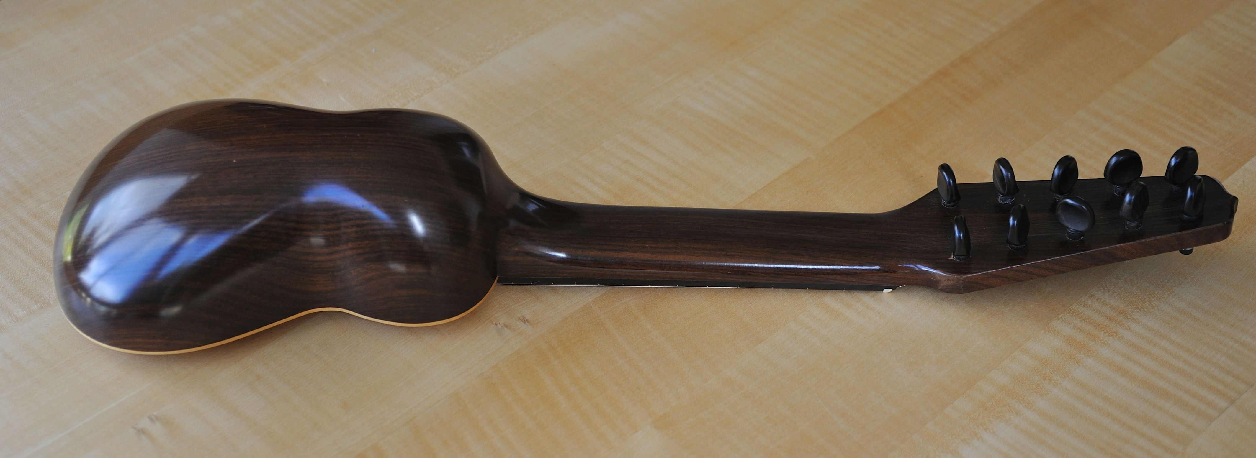 Charango back